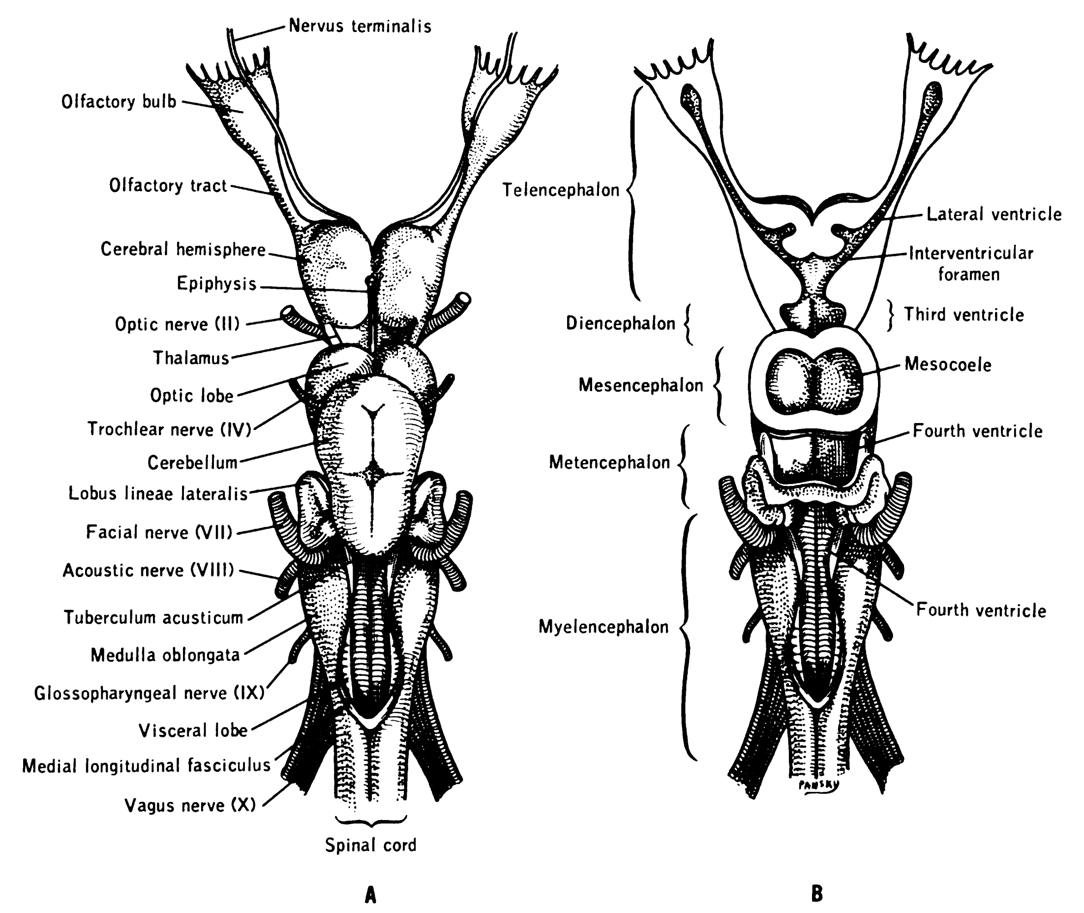 Anatomical illustration of the human nervous system from the 1960 book A functional approach to neuroanatomy A. Dorsal view of the brain of the dogfish. S. Dorsal view of the brain of the dogfish with the ventricles open. (Adapted from Ronton and Clark, The Anafomy of fhe Nervous System, 10th ed., W. B. Saunders Company, Philadelphia, 1959.)